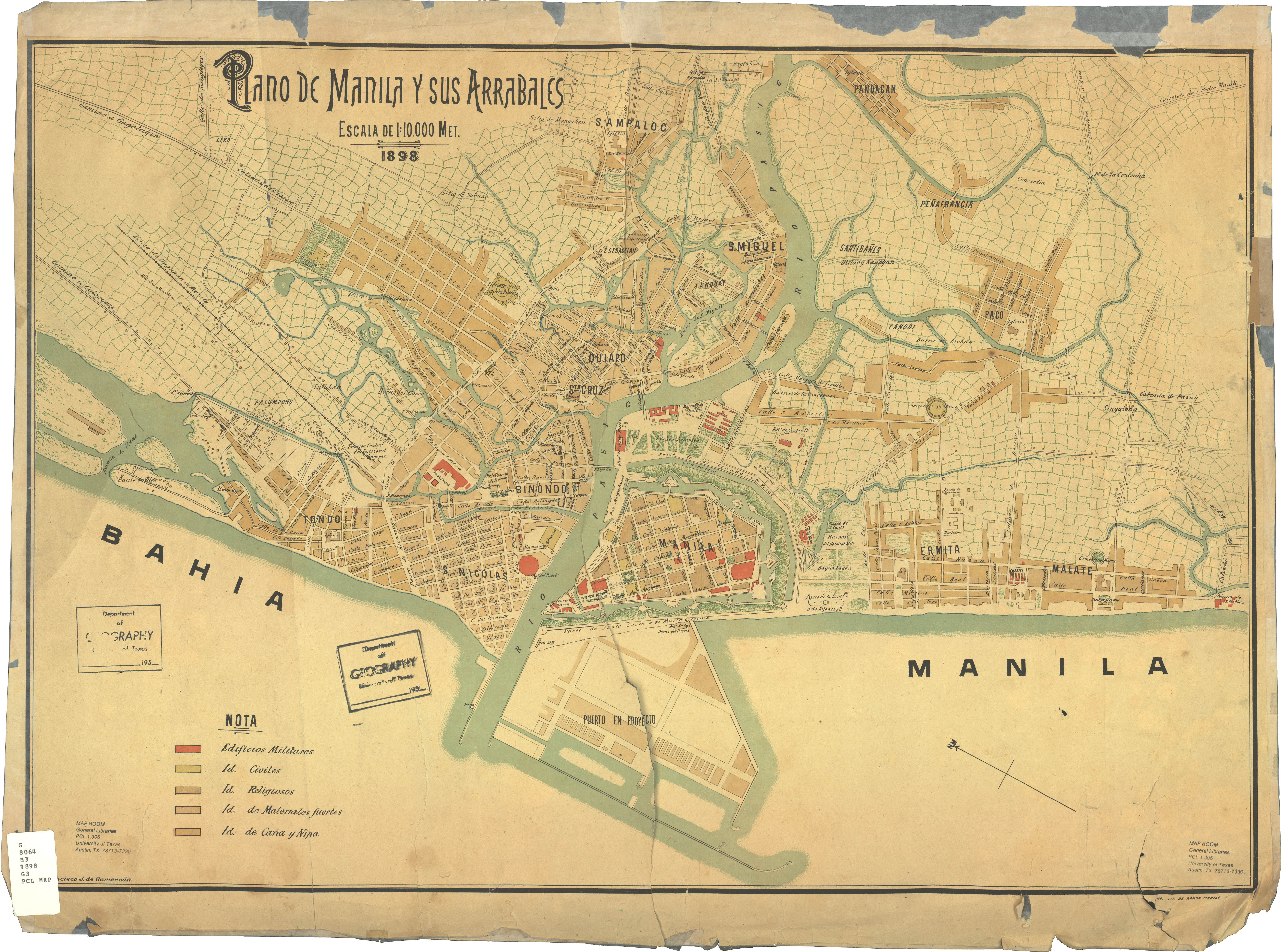 Map of Manila and its suburbs, in Spanish language, 1898